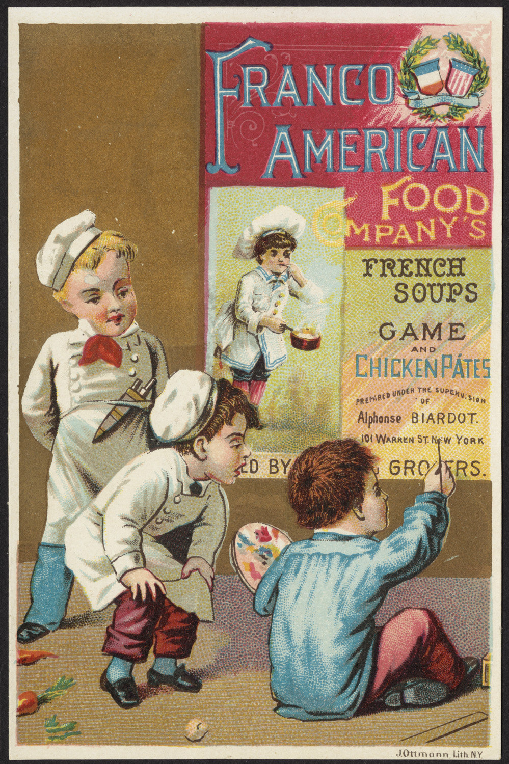 File name: 10_03_000127a Binder label: Food Title: Franco American Food Company's French soups, game and chicken pates [front] Created/Published: N. Y. : J. Ottmann, Lith. Date issued: 1870 - 1900 (approximate) Physical description: 1 print : chromolithograph ; 12 x 8 cm. Genre: Advertising cards Subject: Boys; Painters (Artists); Cooks; Paintings; Canned foods Notes: Title from item. Statement of responsibility: Franco American Food Co. Collection: 19th Century American Trade Cards Location: Boston Public Library, Print Department Rights: No known restrictions.